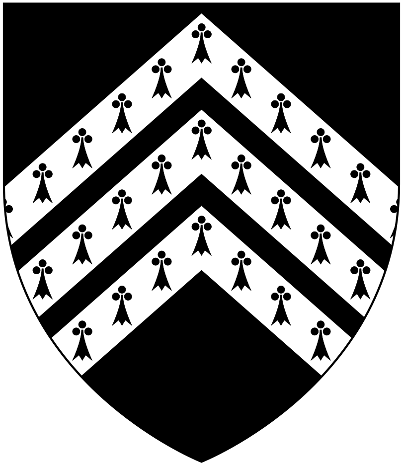 Arms of Wise of Sydenham in the parish of Marystow, Devon: Sable, three chevronels ermine (Source: Vivian, Lt.Col. J.L., (Ed.) The Visitation of the County of Devon: Comprising the Heralds' Visitations of 1531, 1564 & 1620, Exeter, 1895, p.791)